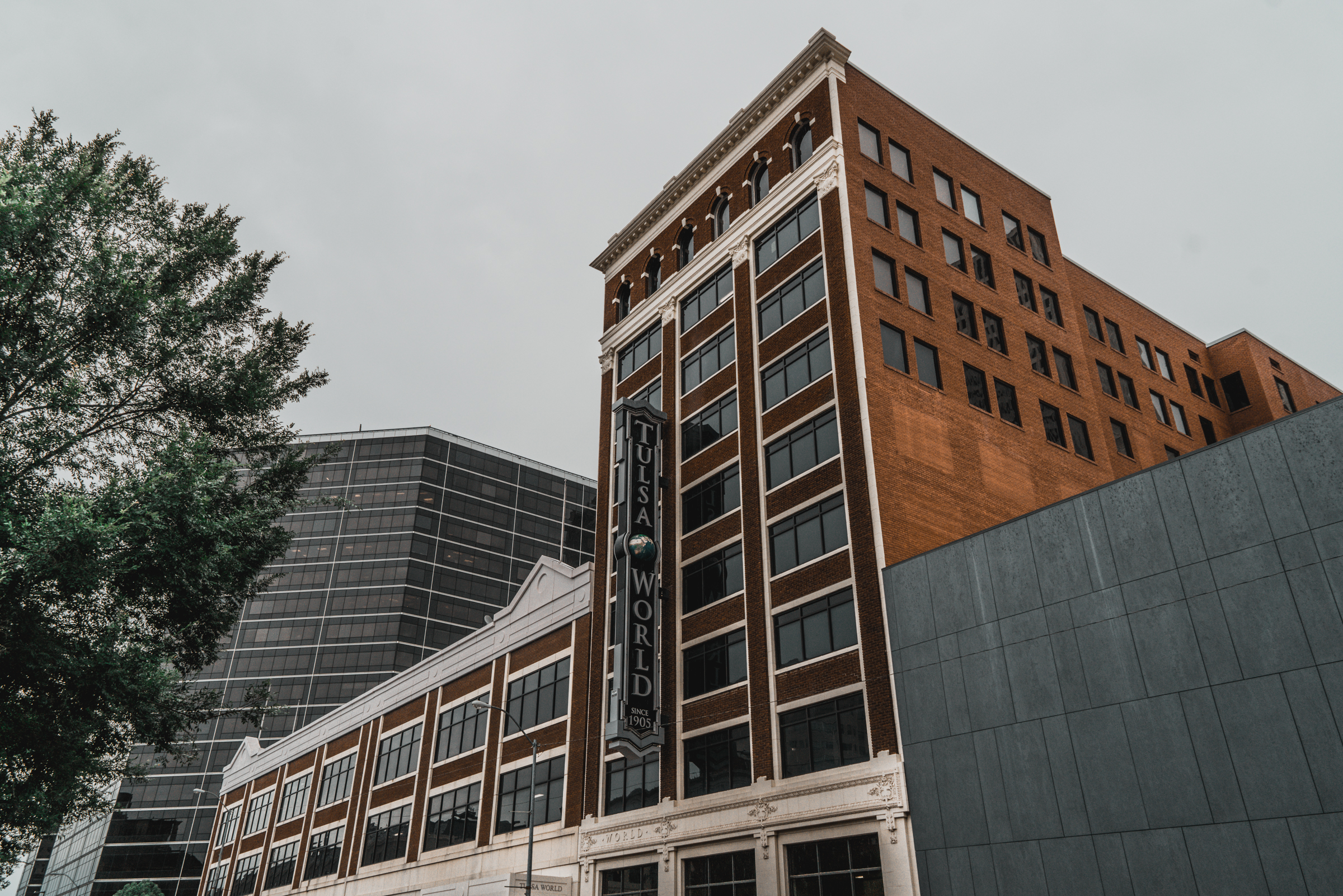 Local newspaper Tulsa World's office in Tulsa, Oklahoma.